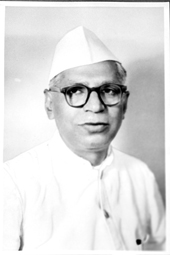 D.I.,H’bad/May,1952,A32bShri D.G. Bindu. Digambarrao Govindrao Bindu, Minister, State of Hyderabad, India May 1952